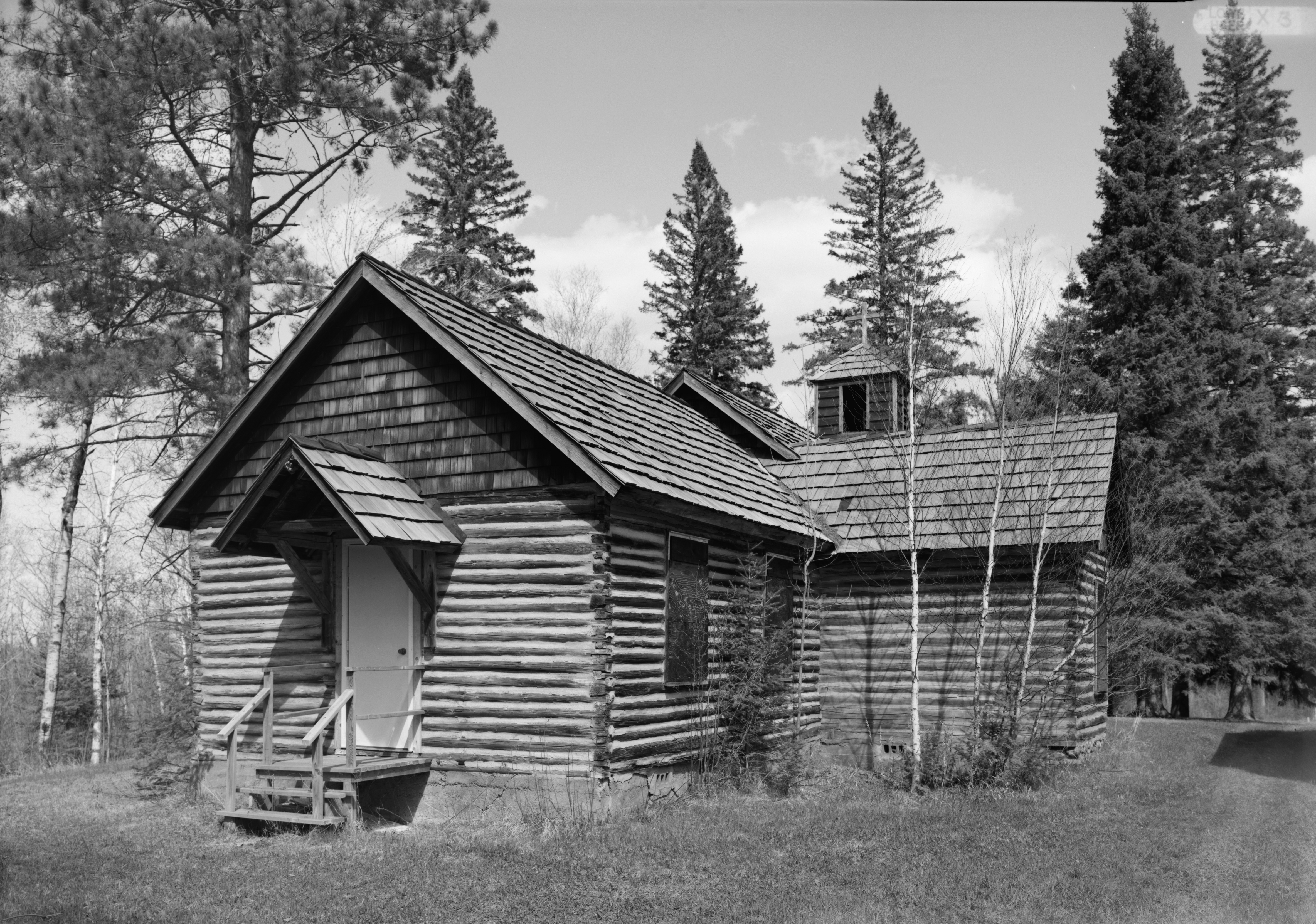 St. Joseph & Mary Church, Mission Road, Cloquet, Carlton County, MN.